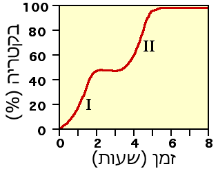 Diagram for Monod-type bacterial growth experiment.